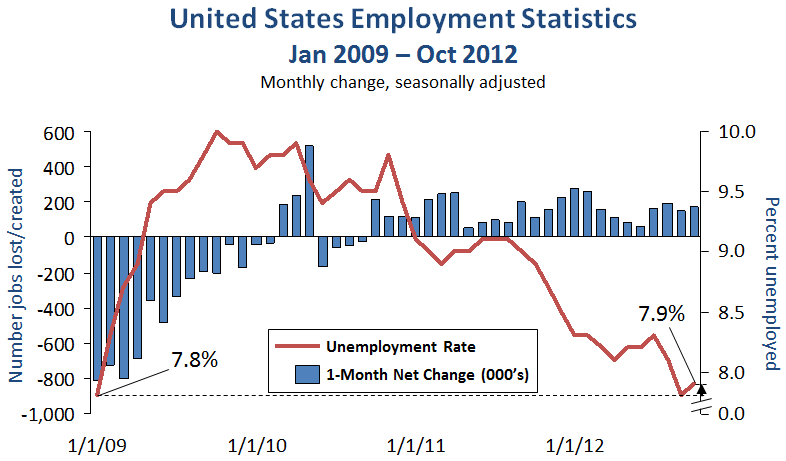 Employment statistics in the United States (plot of monthly data for Unemployment Rate and 1-Month Net Change) from January 2009 to October 2012; i.e., employment stats under Obama Administration Data sources: Bureau of Labor Statistics, Unemployment Rate, Bureau of Labor Statistics, 1-Month Net Change